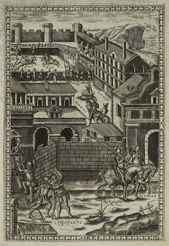 Ludovico Ariosto, Orlando Furioso, 1634 - Ariodante and Dalinda, illustration pl.V, p.31. The tale of Ariodante, and Ginevra impersonated by Dalinda is the subject of a fine engraving in the 1634 edition of Harington's translation of Orlando Furioso. This plate shows several scenes from the story that Shakespeare used, including in the foreground, the deception of Ariodante when he is made to believe that his love, Ginevra, has welcomed another lover at night.